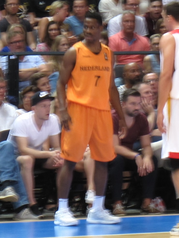 Charlon Kloof during EuroBasket 2017 qualification